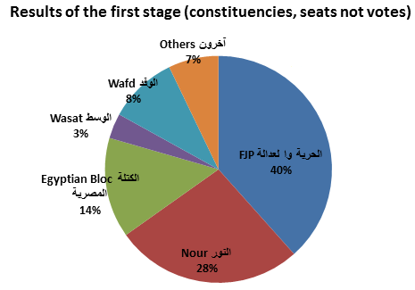 Results of the Egyptian Elections in the first phase stage